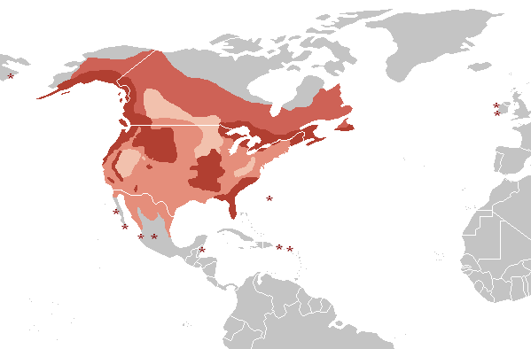 Map showing the distribution of the Bald Eagle (Haliaeetus leucocephalus), with colonial borders added.